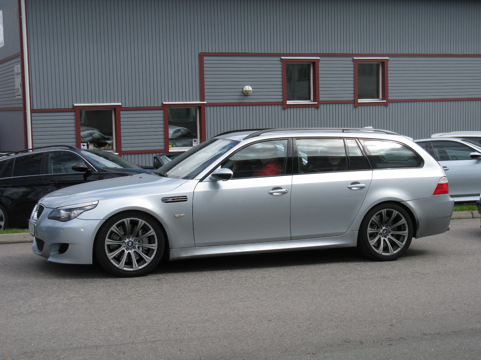 BMW M5 Touring E61